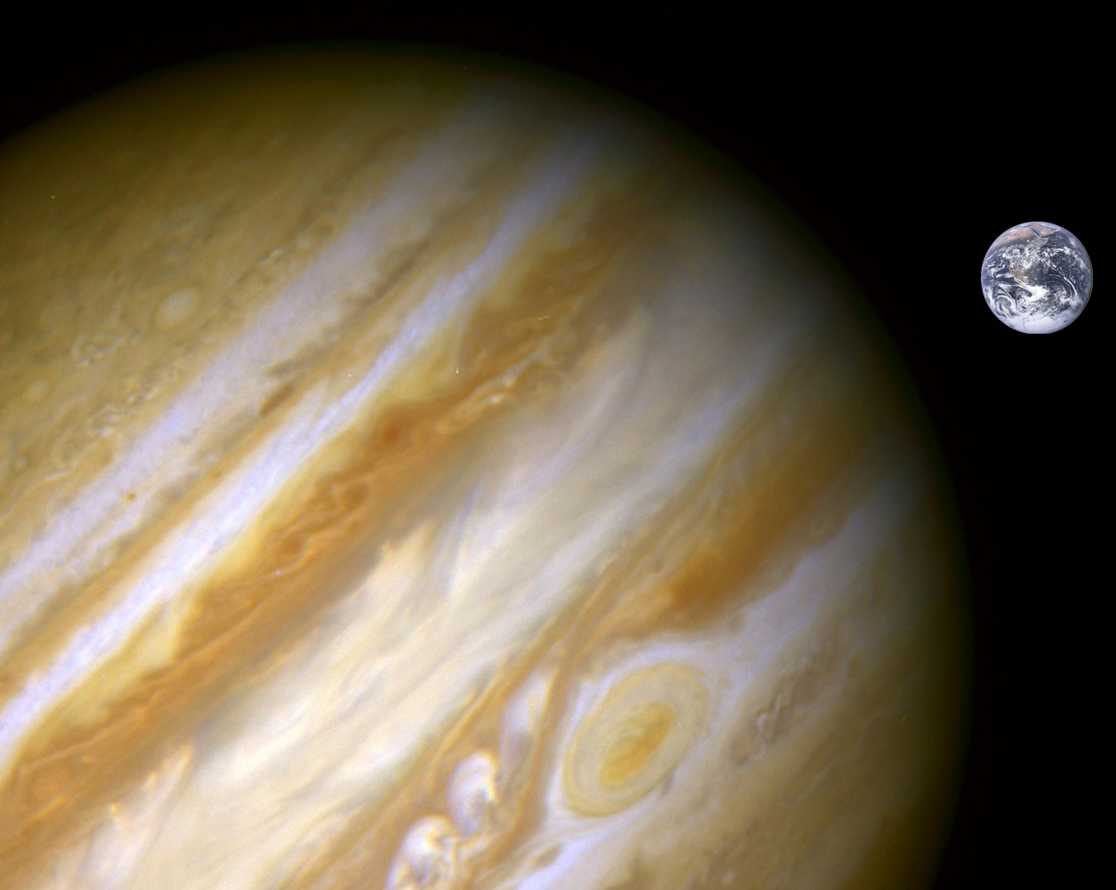 Jupiter's core is two times the size and almost eleven times the mass than that of the Earth.